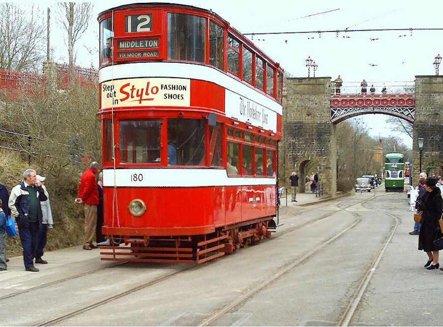 A vintage British tram. Until the 1950s, trams like this were a common sight in most British cities. This one was built in 1931 and used to run in Leeds. Seen here at the National Tramway Museum in Derbyshire England. Photo by G-Man April 2004. (another image)